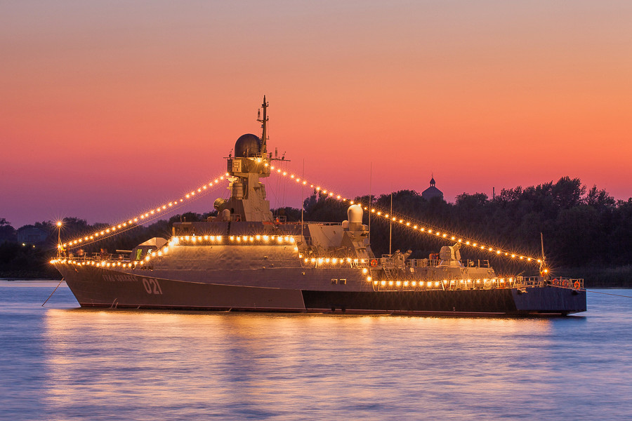 Grad Sviyazhsk in Astrakhan.